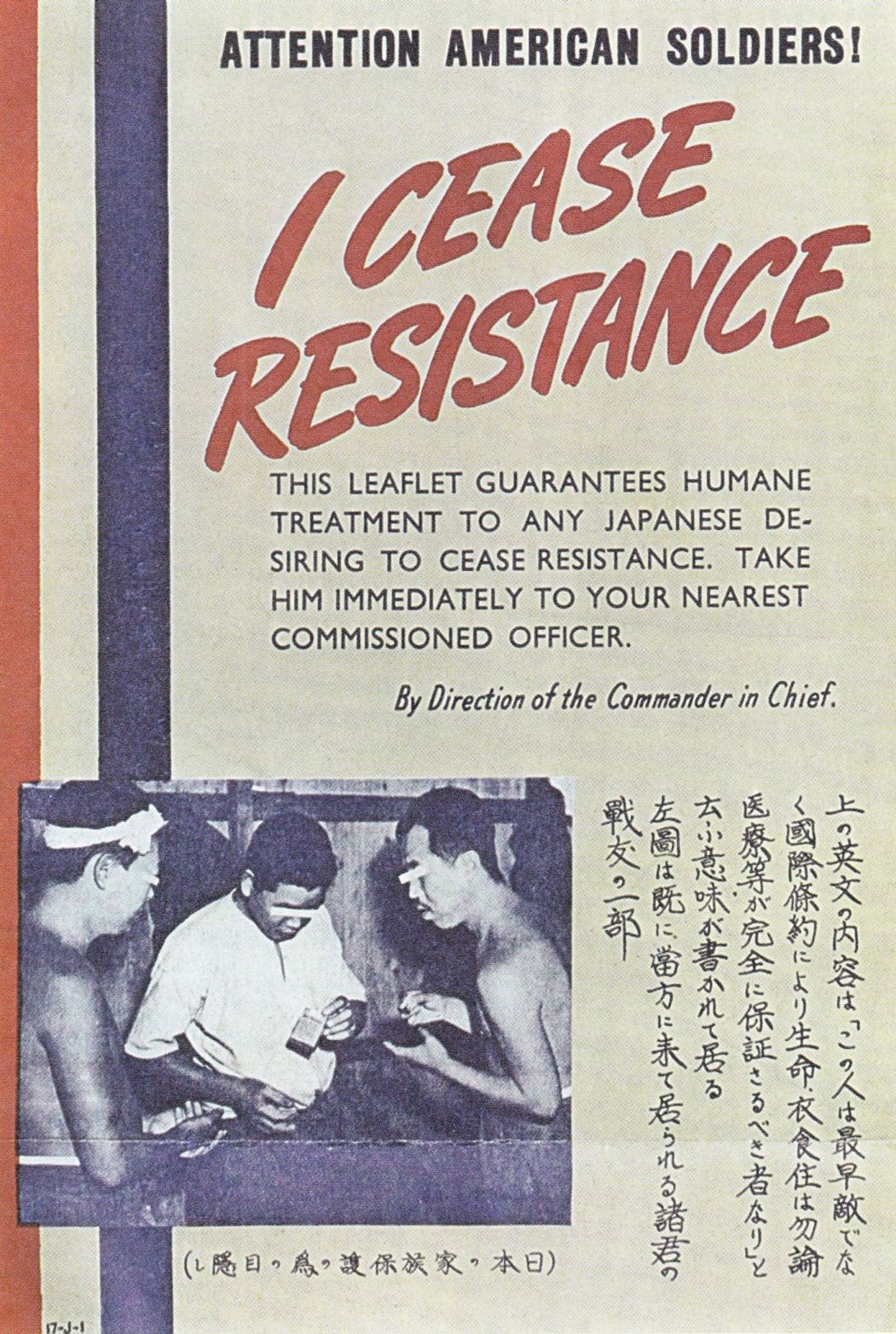 Propaganda leaflet targeted to Japanese troops to induce surrender showing Japanese prisoners of war with cigarettes. Text includes explanation of treatment of prisoners of war according to the Geneva Convention.